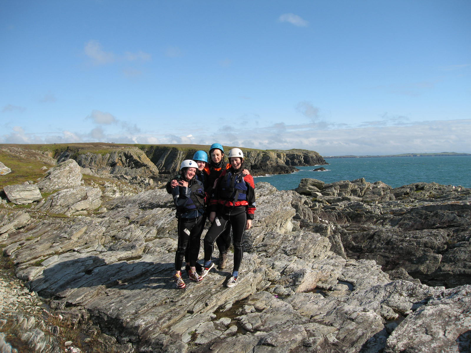 Holy Island in Anglesey County, Welsh